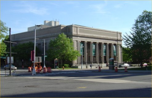 Hilberry Theatre at Wayne State University, Detroit, Michigan. Contributing property to and within the Wayne State University Buildings Historic District.